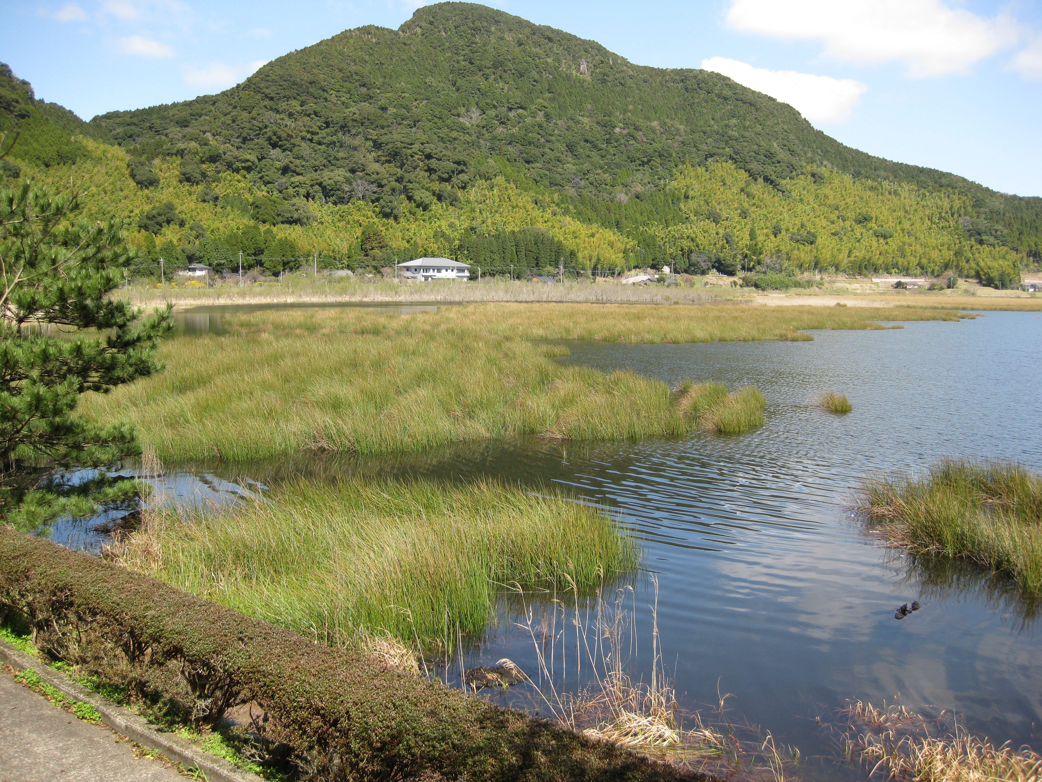 Grasses Forming Peat of Lake Imutaike in Japan.